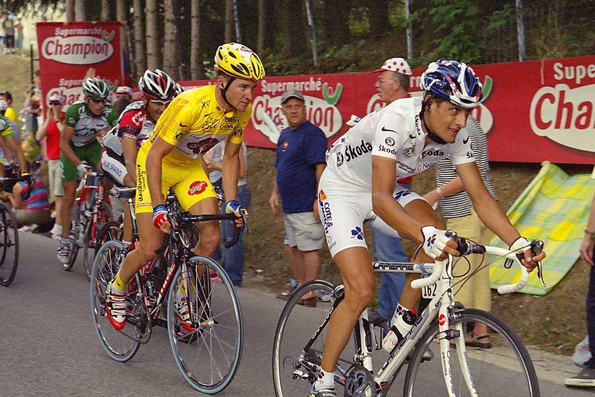 Thomas Voeckler (Brioches La Boulangère) holds onto the leader's Yellow Jersey as the 2004 Tour de France reaches the Alps. He also held the White Jersey for the Young Riders competition at this stage but here it is being worn by the 2nd rider in that competition - Sandy Casar